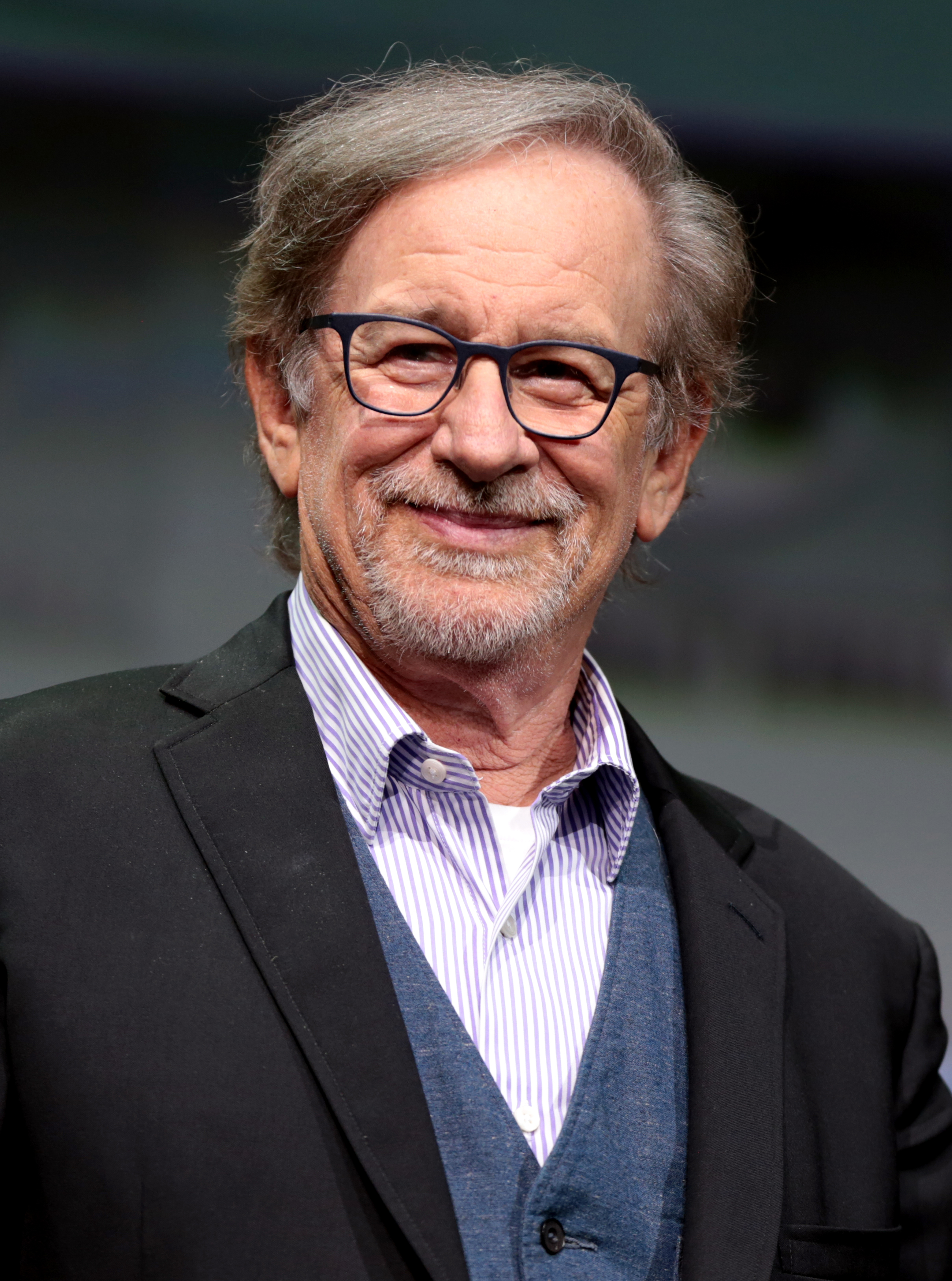 Steven Spielberg speaking at the 2017 San Diego Comic-Con International in San Diego, California.